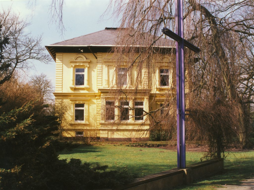 Elmshorn (Germany), Kaltenweide 83, Baptist Church, photo: 1999